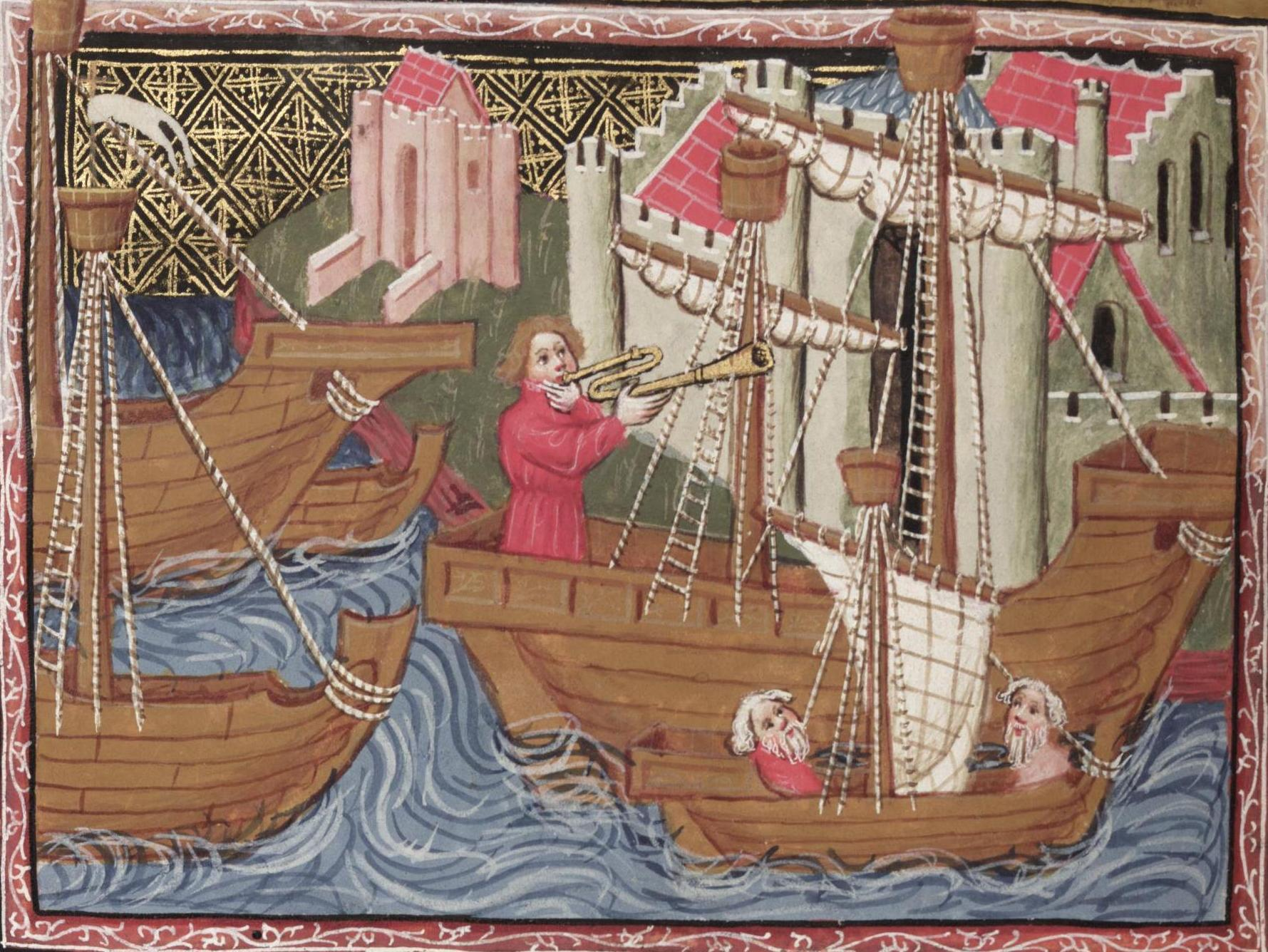 La cite de Caitan (the city of Zayton, which is the Chinese port of Quanzhou in Yuan Dynasty) from a 15th century manucript of Marco Polo's Li livres du Graunt Caam (The Travels of Marco Polo)